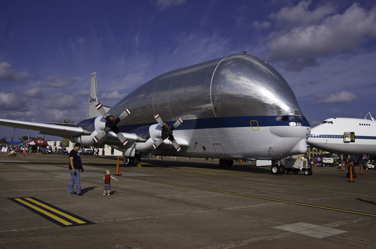 NASA Super Guppy N941NA at Wings Over Houston air show